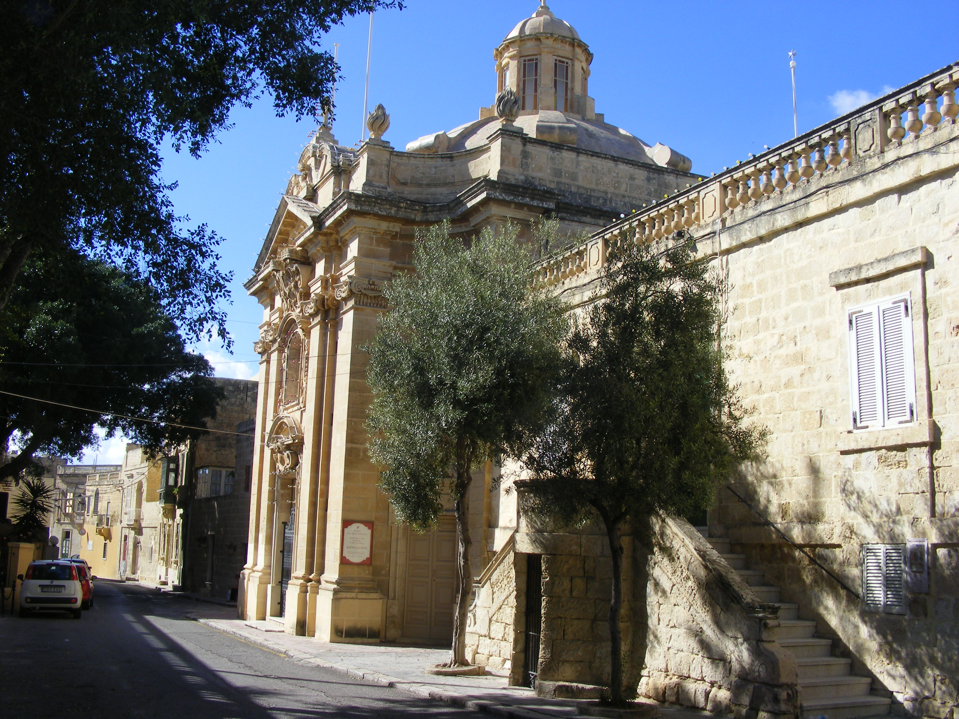 St. Bartholomew Church, Tarxien, Malta and rectory (on the right)